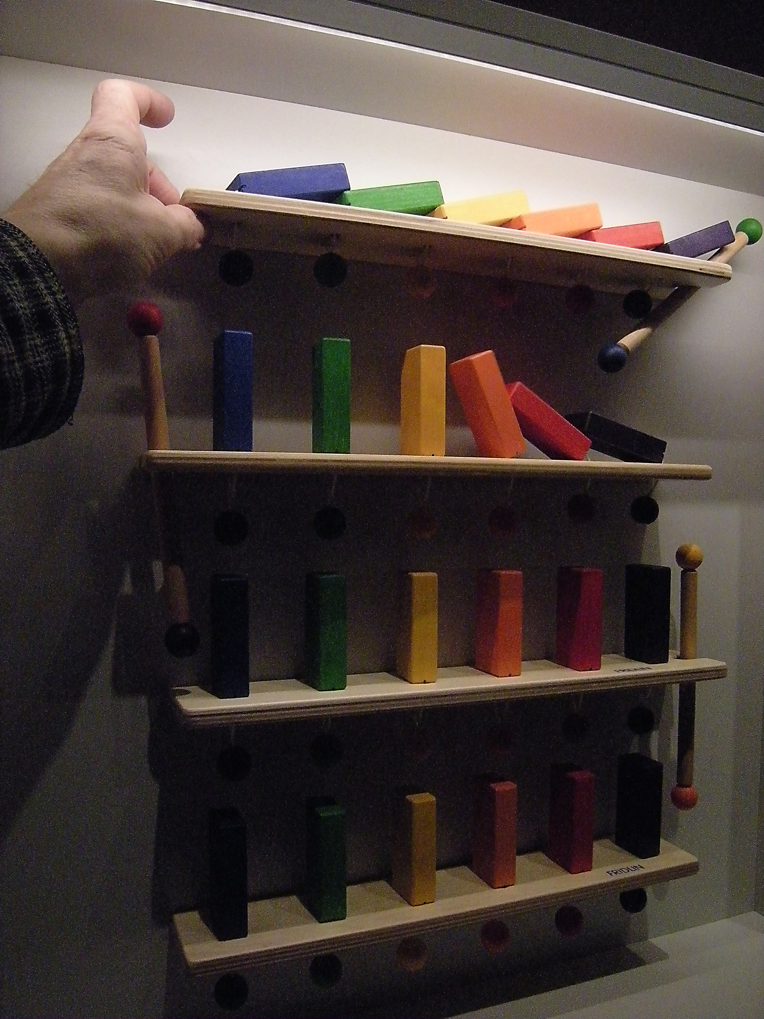 Viktor Frankl Museum.